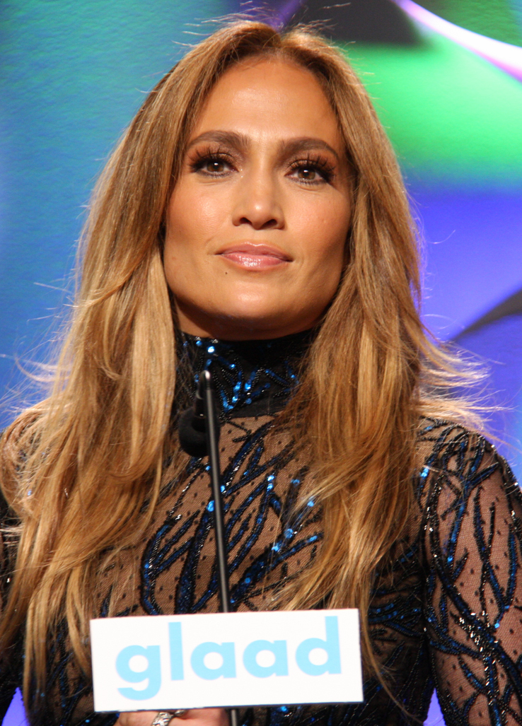 25th Annual GLAAD Media Awards #glaadawards